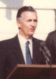 Edward Seaga